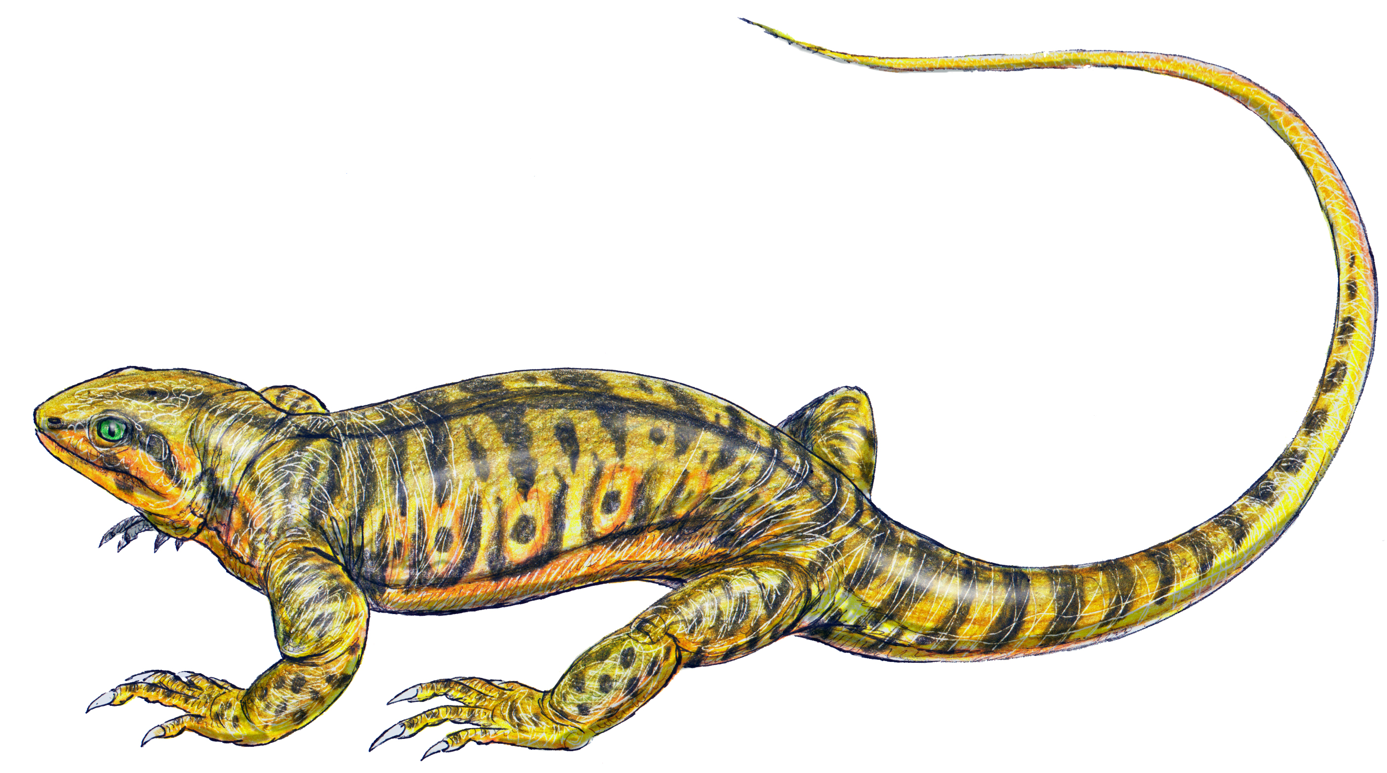 Callibrachion gaudryi, caseasaur from Black Shales of Autun, near Margenne (Early Permian, Artinskian of France)